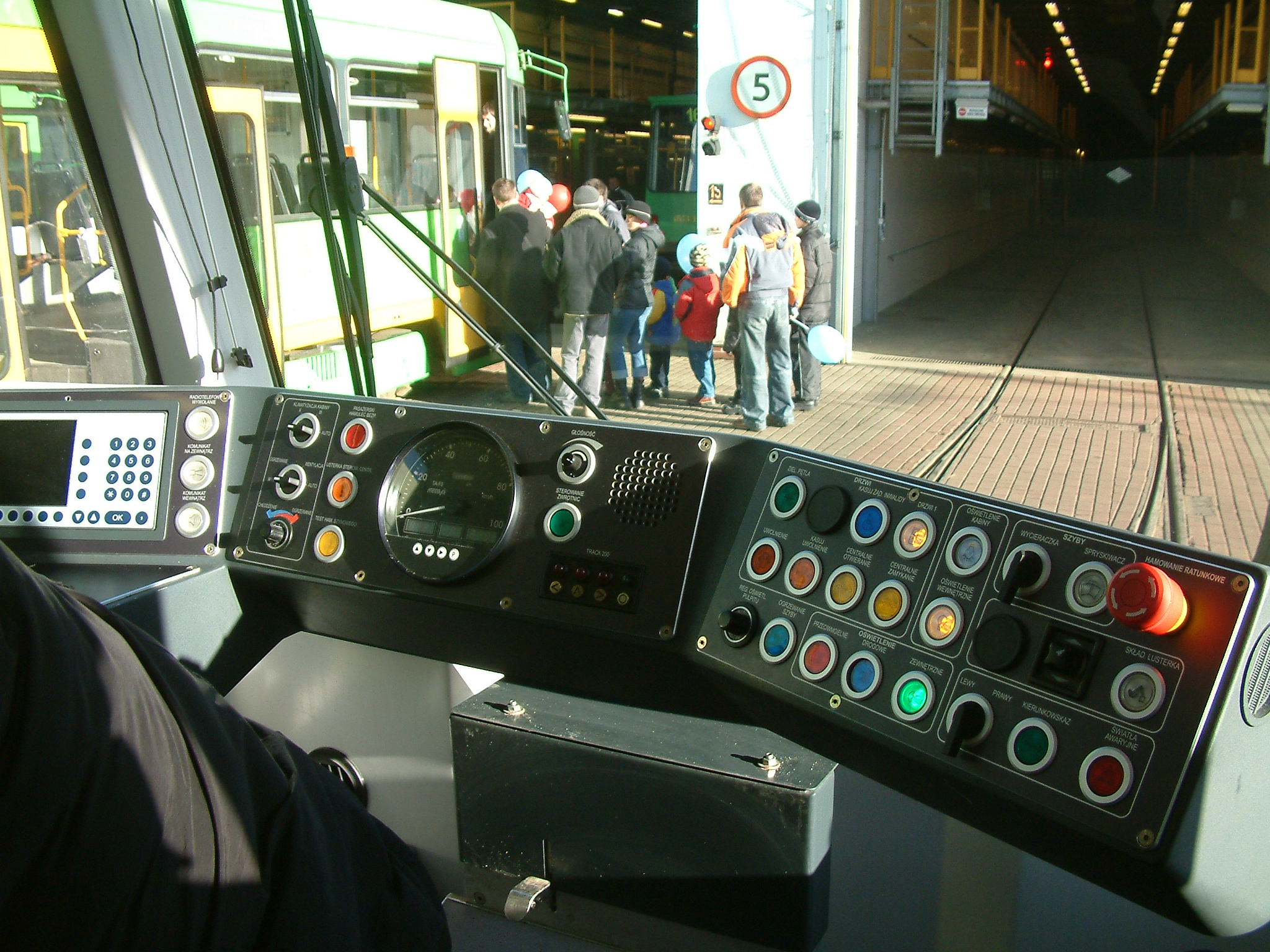 Siemens Combino - control panel, Głogowska Depot, Poznań